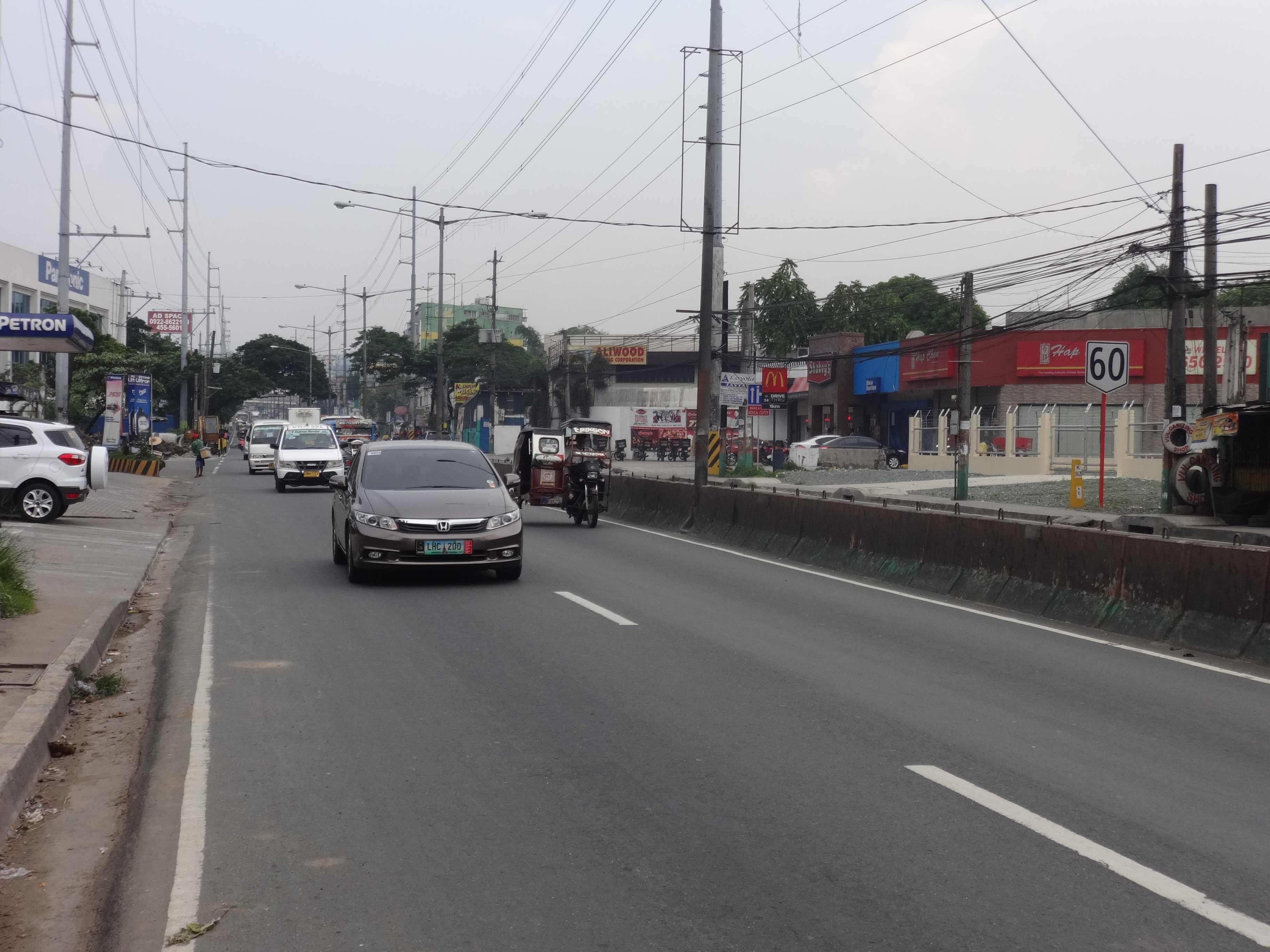 Ortigas Avenue Extension (Manila East Road) in Taytay, Rizal. This is part of Route 60, designated by DPWH.